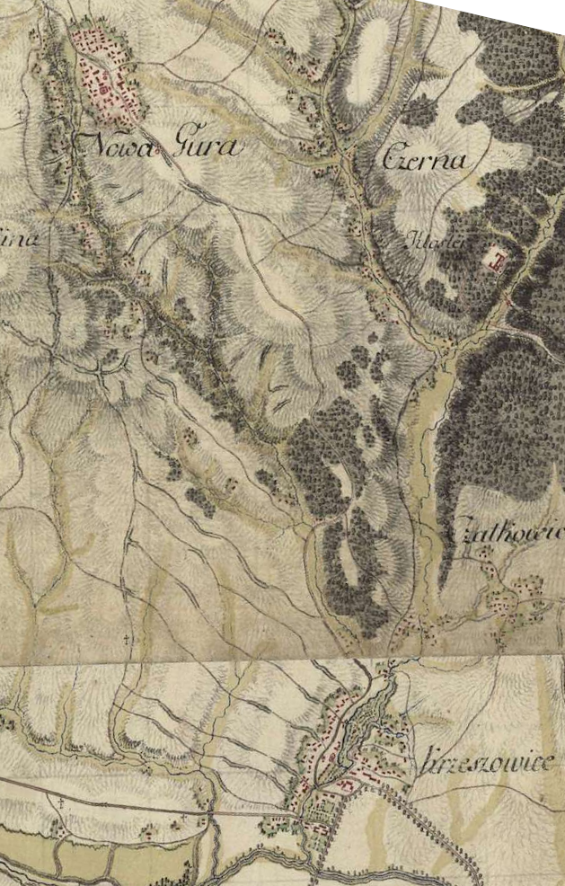 Nowa Góra and Krzeszowice around 1800